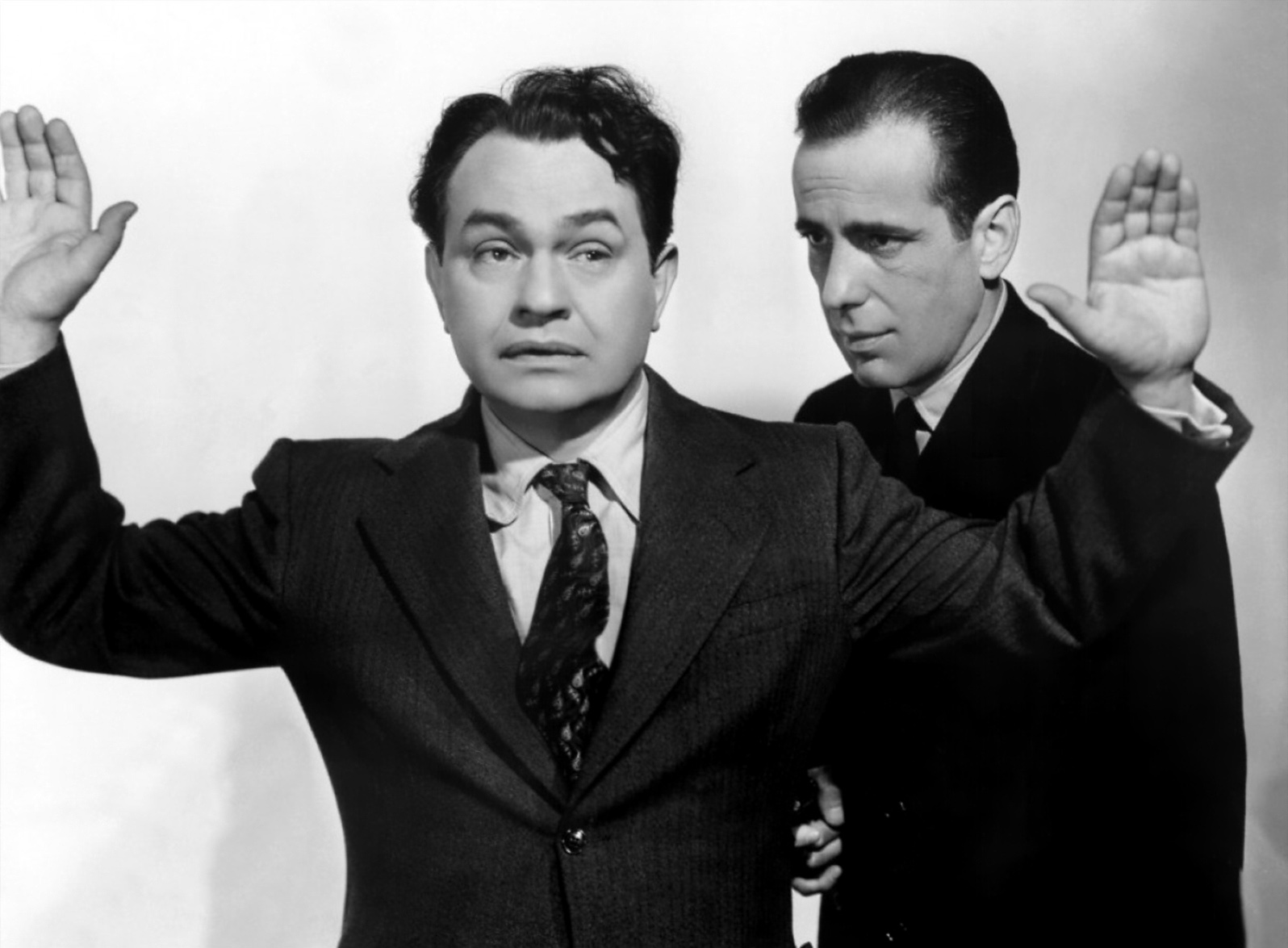 Edward G. Robinson & Humphrey Bogart in Brother Orchid - publicity still